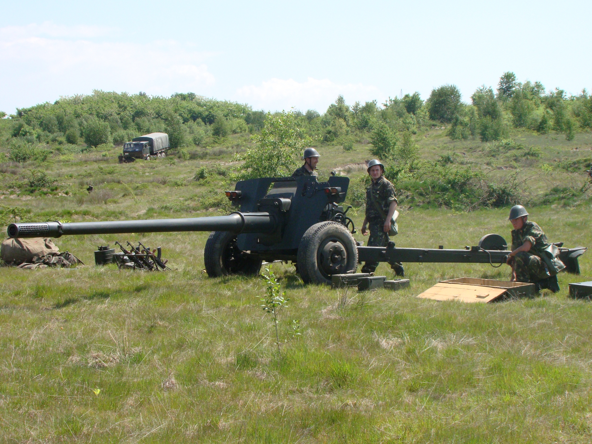 Soldiers from the 612th Anti-tank Battalion training with 100mm Model 1977 anti-tank guns.